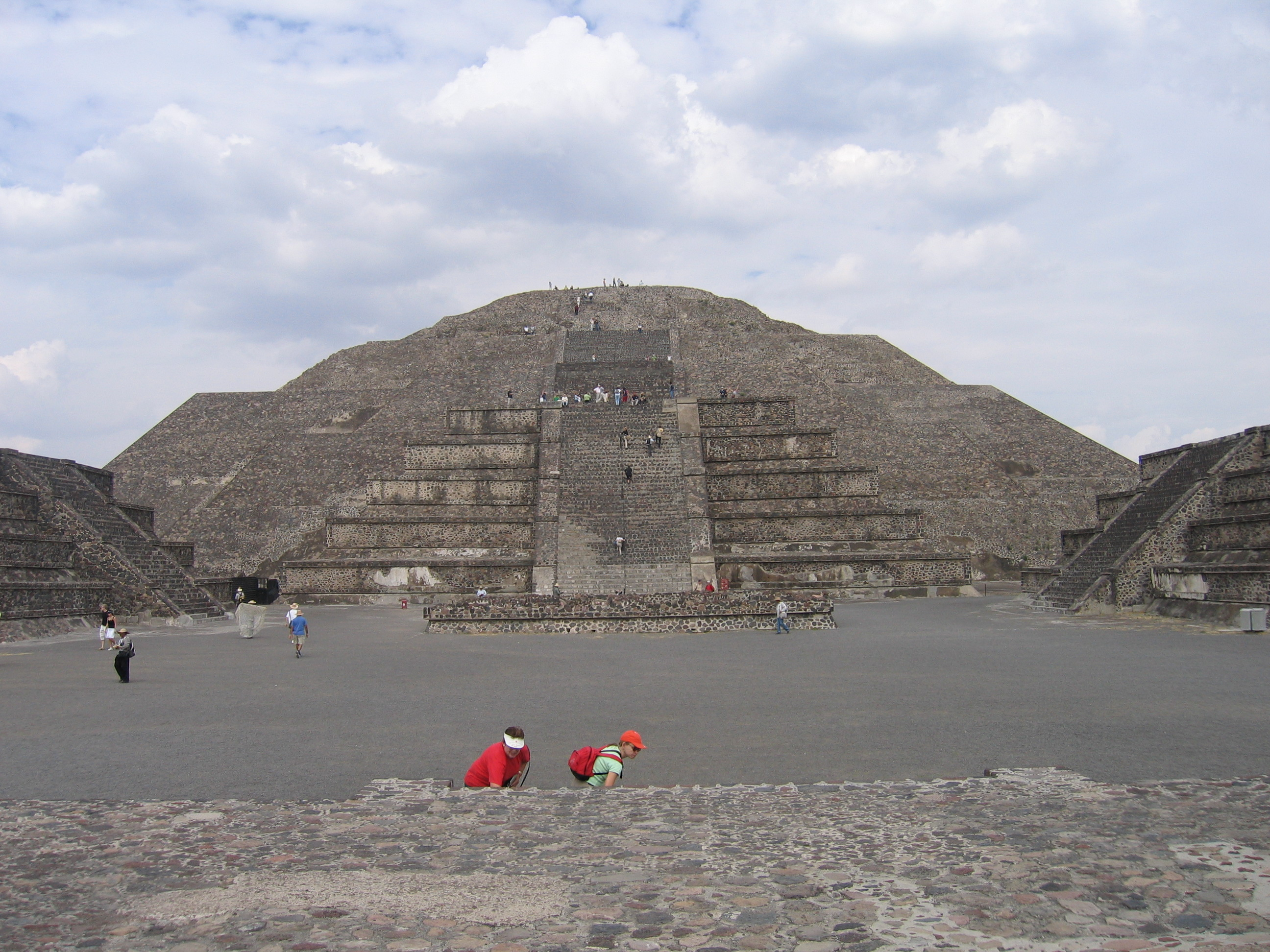 The Pyramid of the Moon in Teotihuacan, México